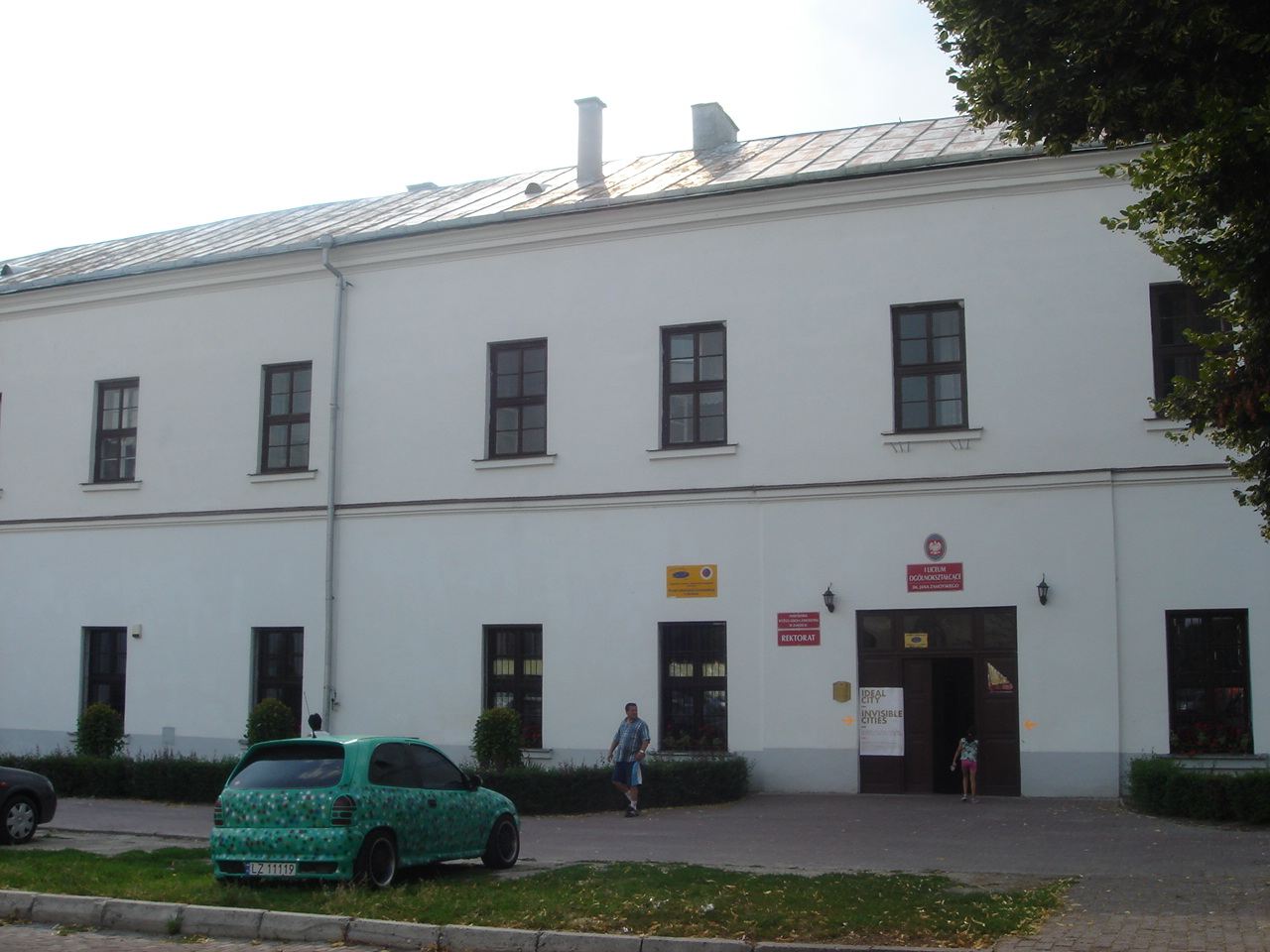 Former Zamość Academy